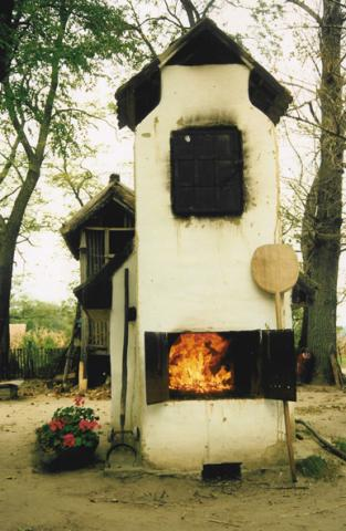 Furnace, Hungary